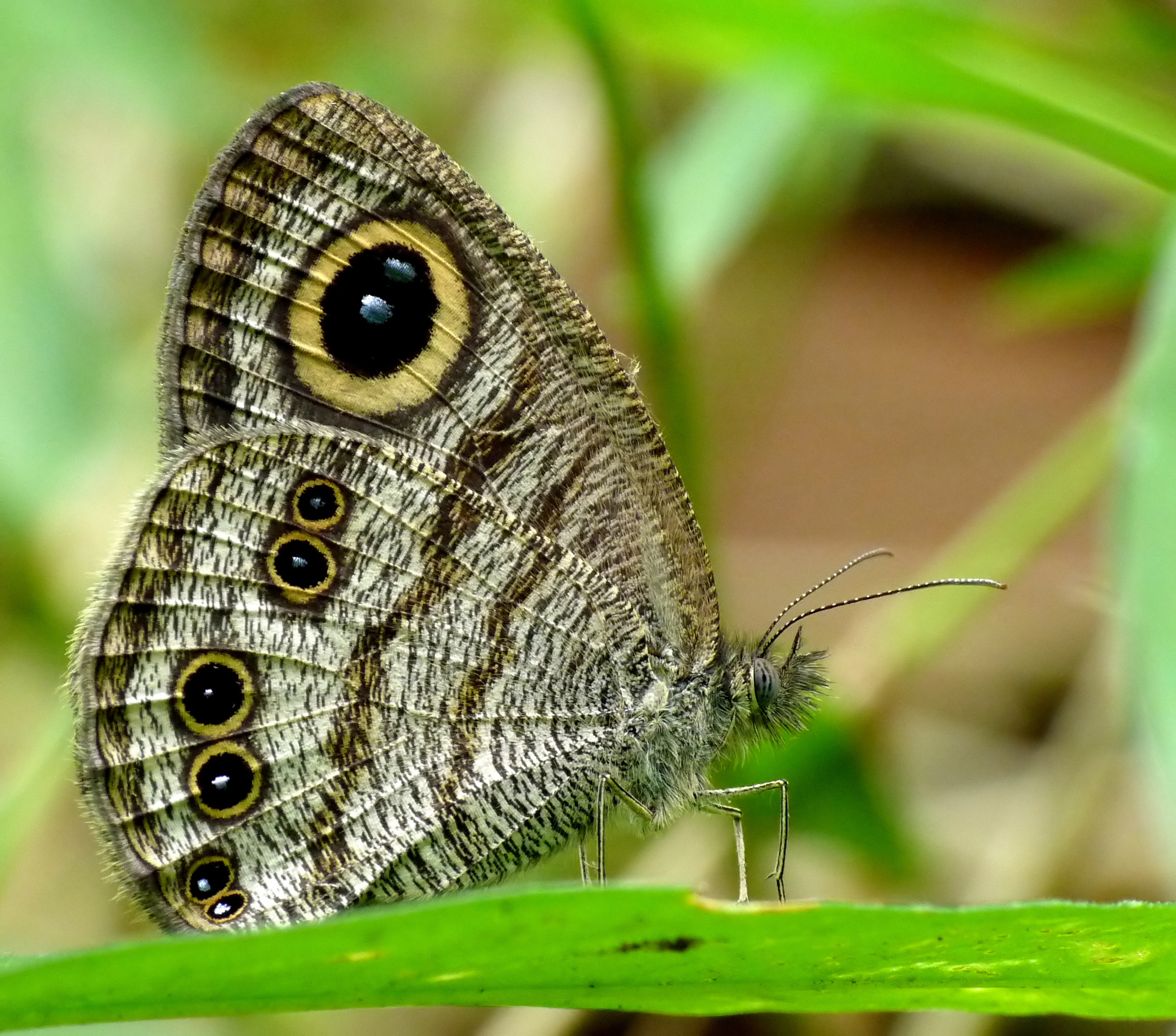 Ypthima baldus, Common Fivering, is a species of Satyrinae butterfly found in Asia. Taken at Kadavoor, Kerala, India.